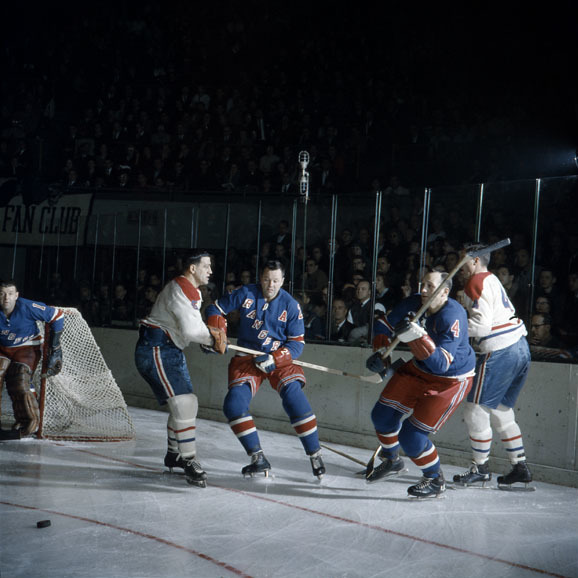 "There's no action like hockey action." Montreal Canadiens versus the New York Rangers (archival notation states Toronto Maple Leafs versus New York Rangers, but appears to be incorrect) (Canada). From left to right: Lorne Worsley (Rangers), Bernard Geoffrion (Canadiens), Doug Harvey (Rangers), Albert Langlois (Rangers), Jean Béliveau (Canadiens).